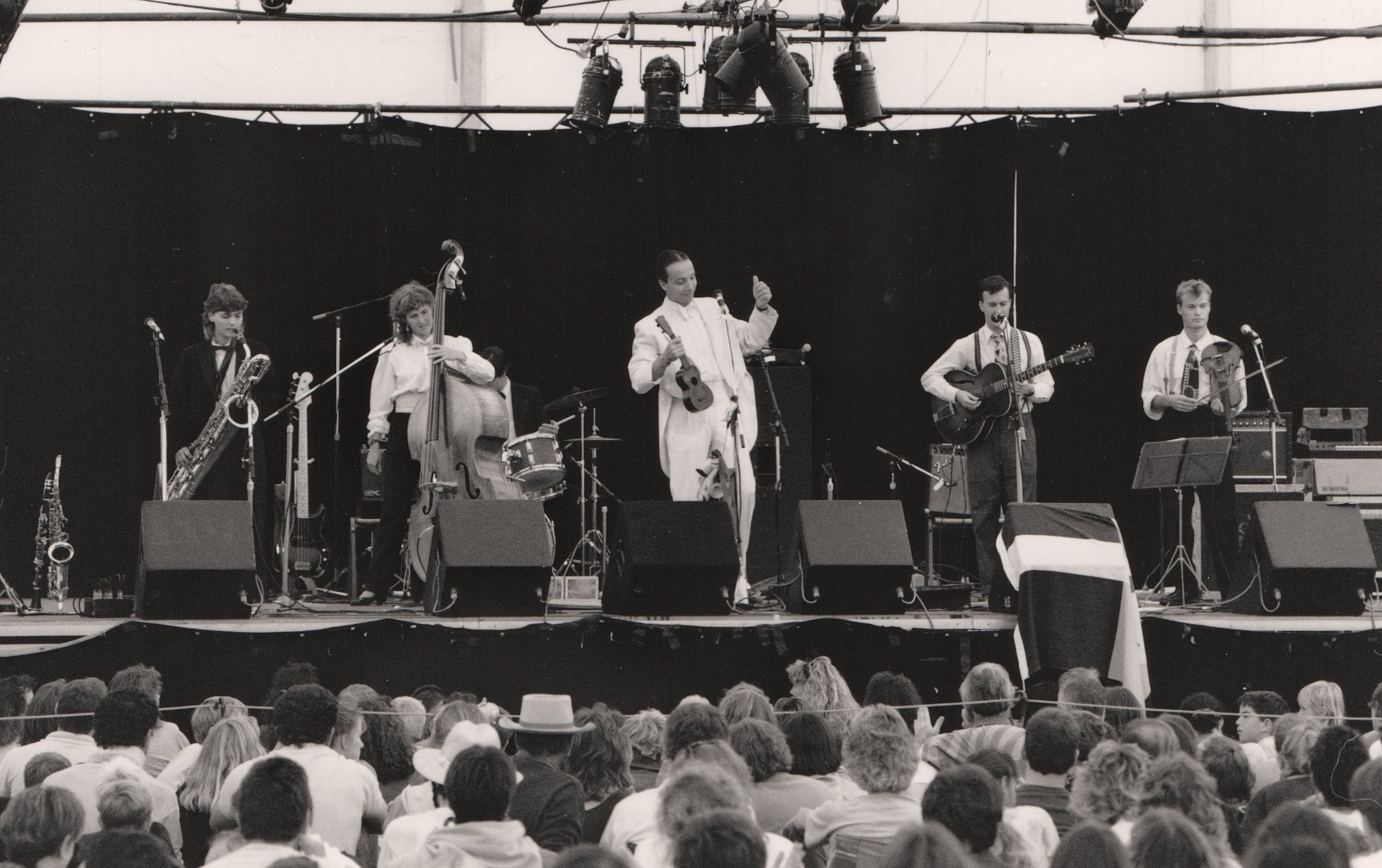 The Conway "Hiccups" Orchestra on stage (Mic Conway in the centre) at the 1989 Port Fairy Folk Festival, Australia (Tony Rees photograph)